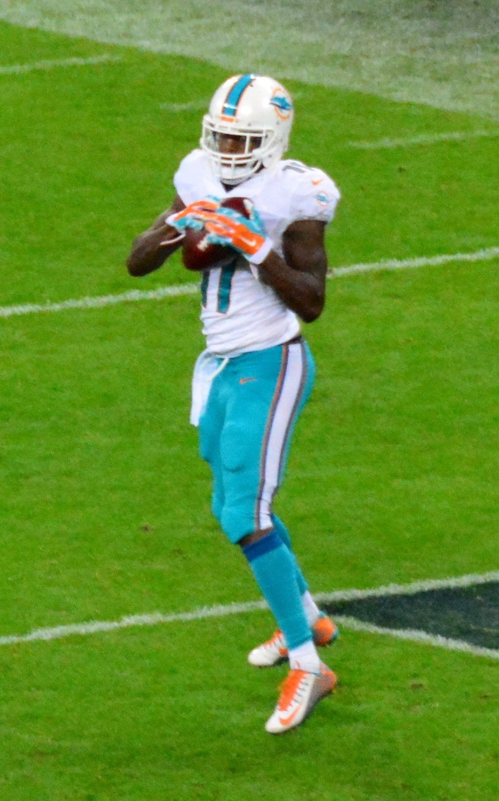 Raiders vs Dolphins - Wembley Sep 2014